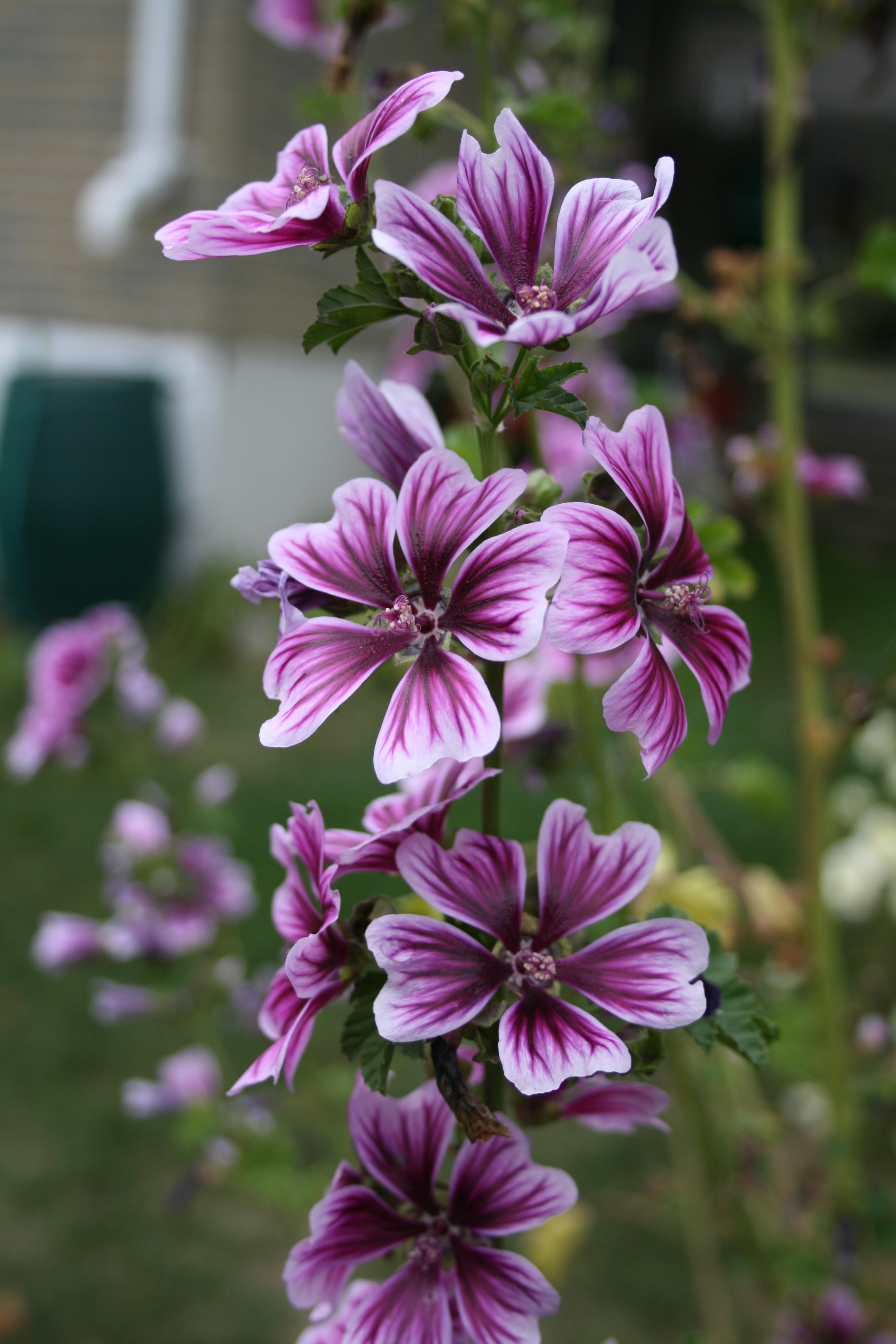 Malva sylvestris var. mauritiana in my parents backyard in Ajax, Ontario. Photoshop was used only to rotate the image 90 degrees.